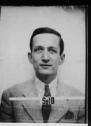 Norman F. Ramsey Los Alamos wartime security badge.